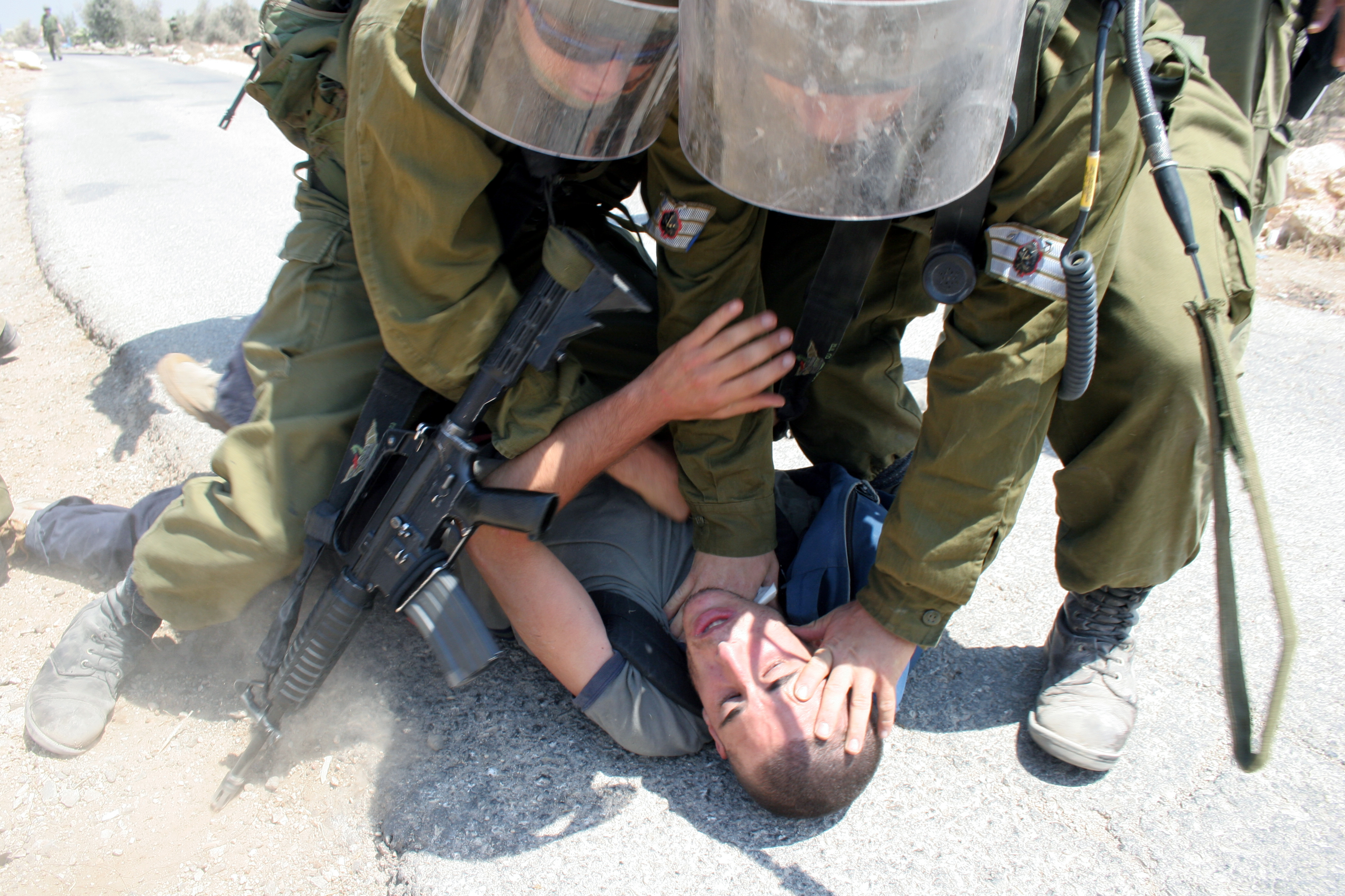 demonstrations against Apartheid Wall in Bil'in / 2005